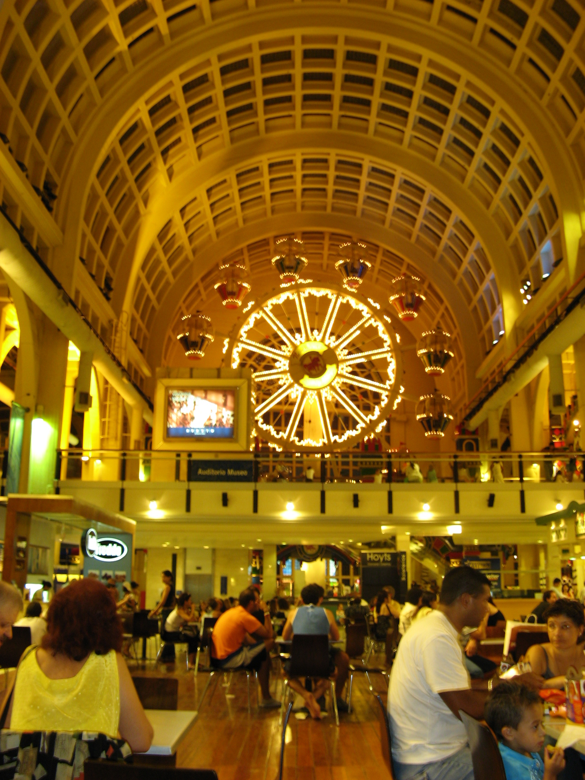 Food court and Ferris wheel, Abasto Shopping Center, Buenos Aires